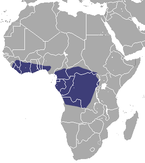 Little Collared Fruit Bat (Myonycteris torquata) range